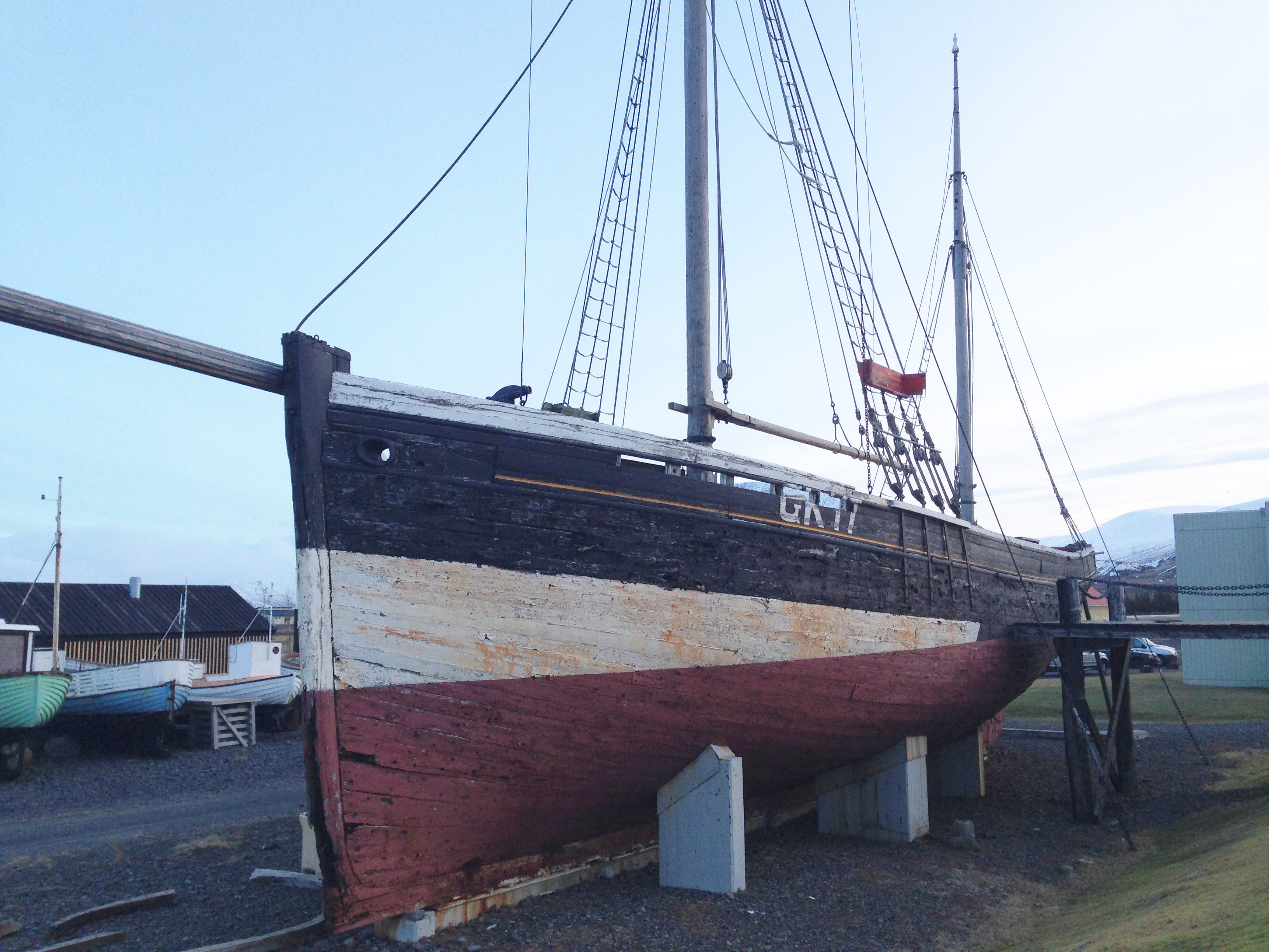 Ketch Sigurfari